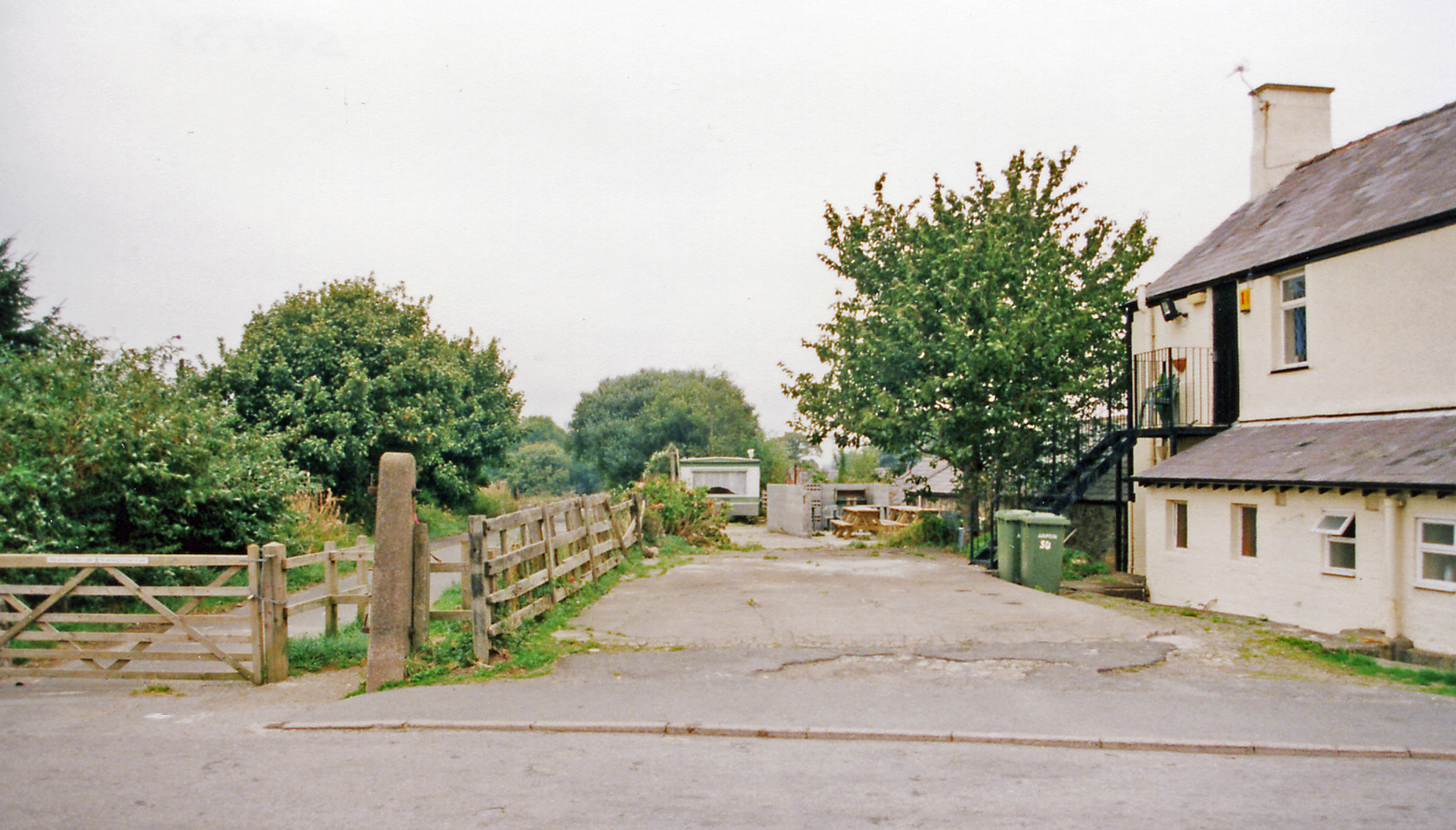 Groeslon station (site/remains),1999. View northward: ex-LNWR (Bangor) - Caernarvon - Afon Wen line, all closed 7/12/64.